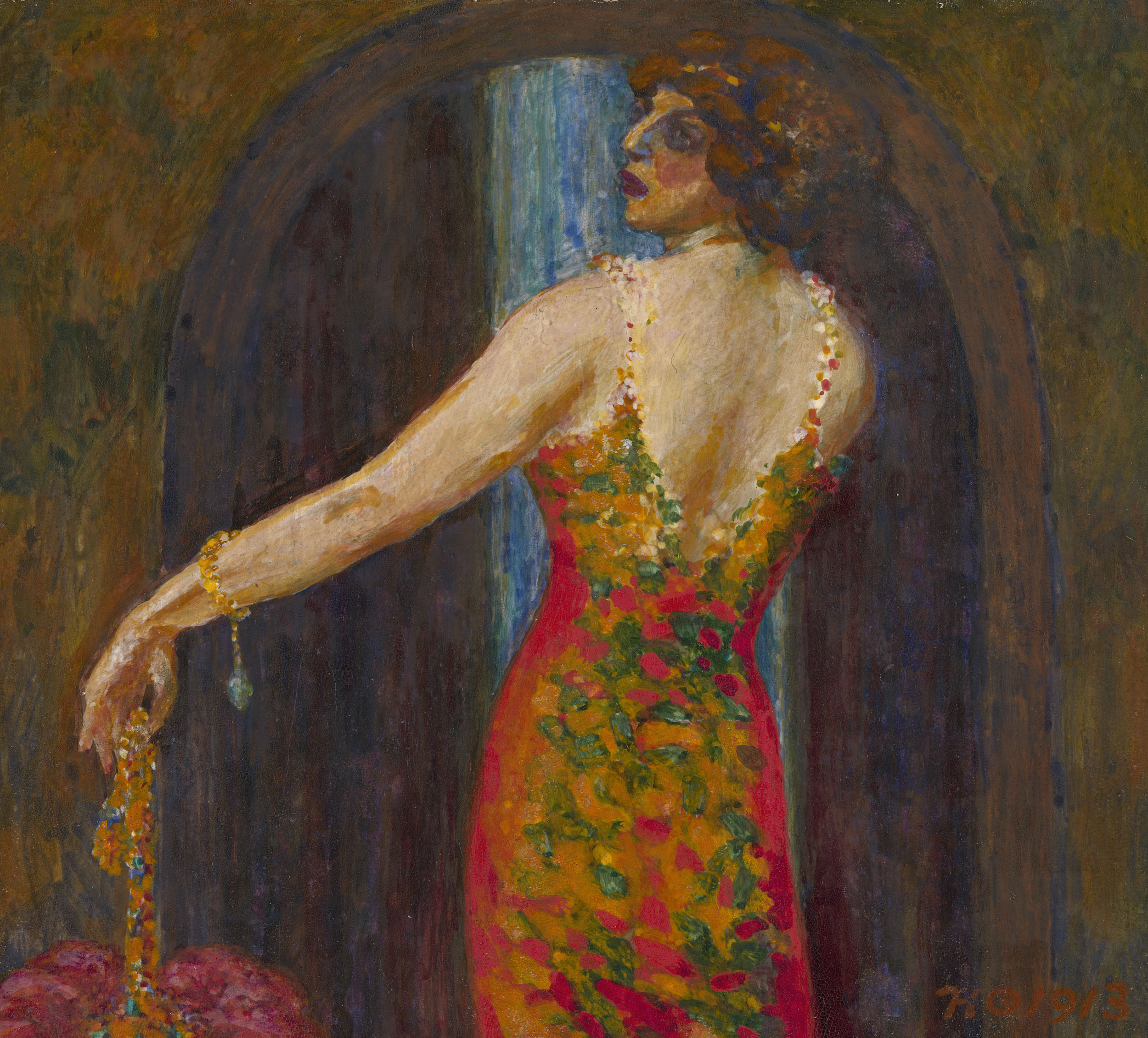 Portrait of E.N. Nosova (née Ryabushinskaya) Portrait of E.N. Nosova (née Ryabushinskaya), signed with initials and dated 1913, also further signed and inscribed in Cyrillic “Dama/tsena 150 rublei” on the reverse. Tempera on card, 22 by 24 cm. Exhibited: Mir Iskusstva, Moscow, 1916, No. 364 (inscription on the reverse). Евфимия Павловна Рябушинская (Носова) (1881-1960) The permanent exhibition of contemporary art at the Art Bureau of N.E Dobychina, St Petersburg, 1913, No. 306 (inscription on the reverse).